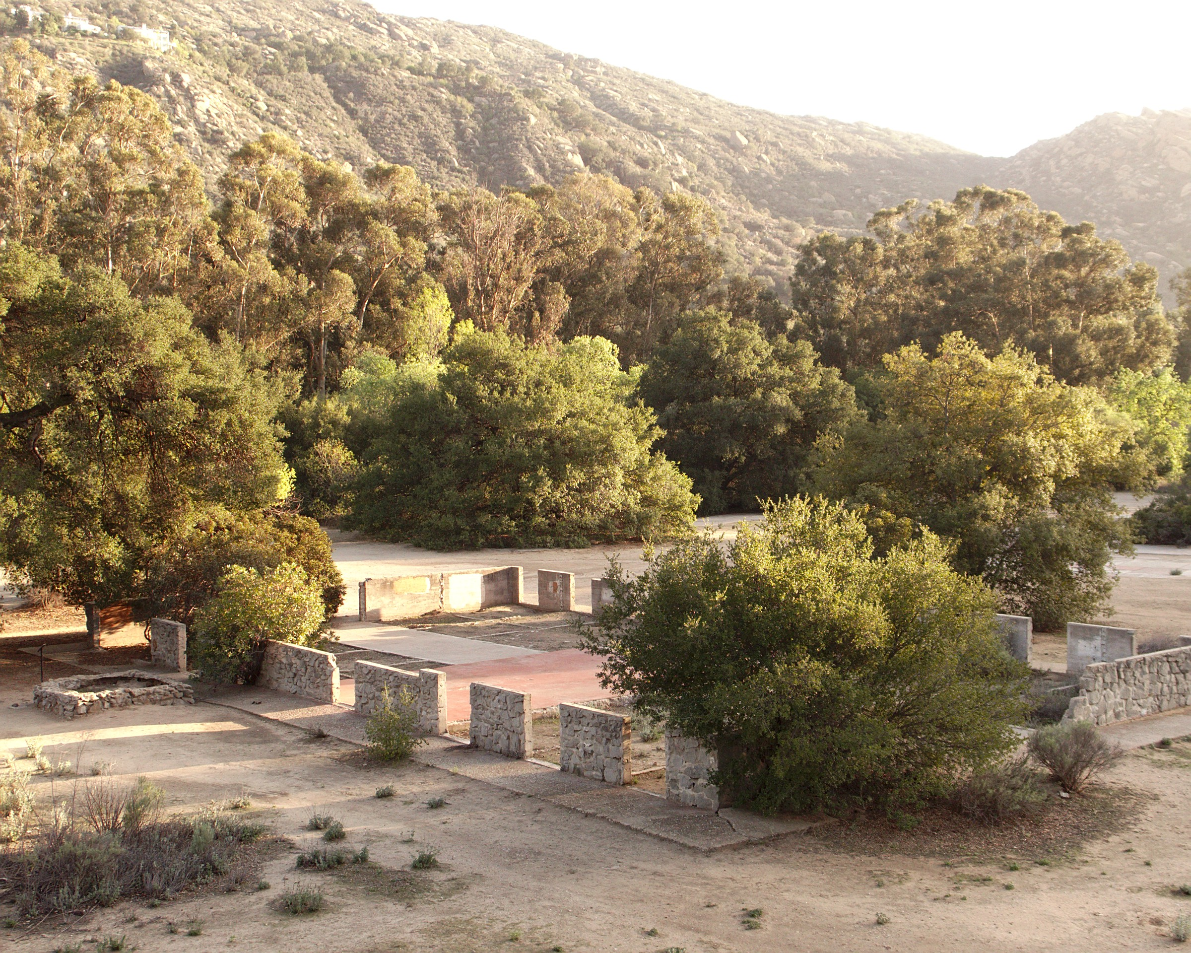 Foundations from old movie sets at Corriganville Regional Park located near the Santa Susana Pass connecting the Simi and San Fernando Valleys in southern California.